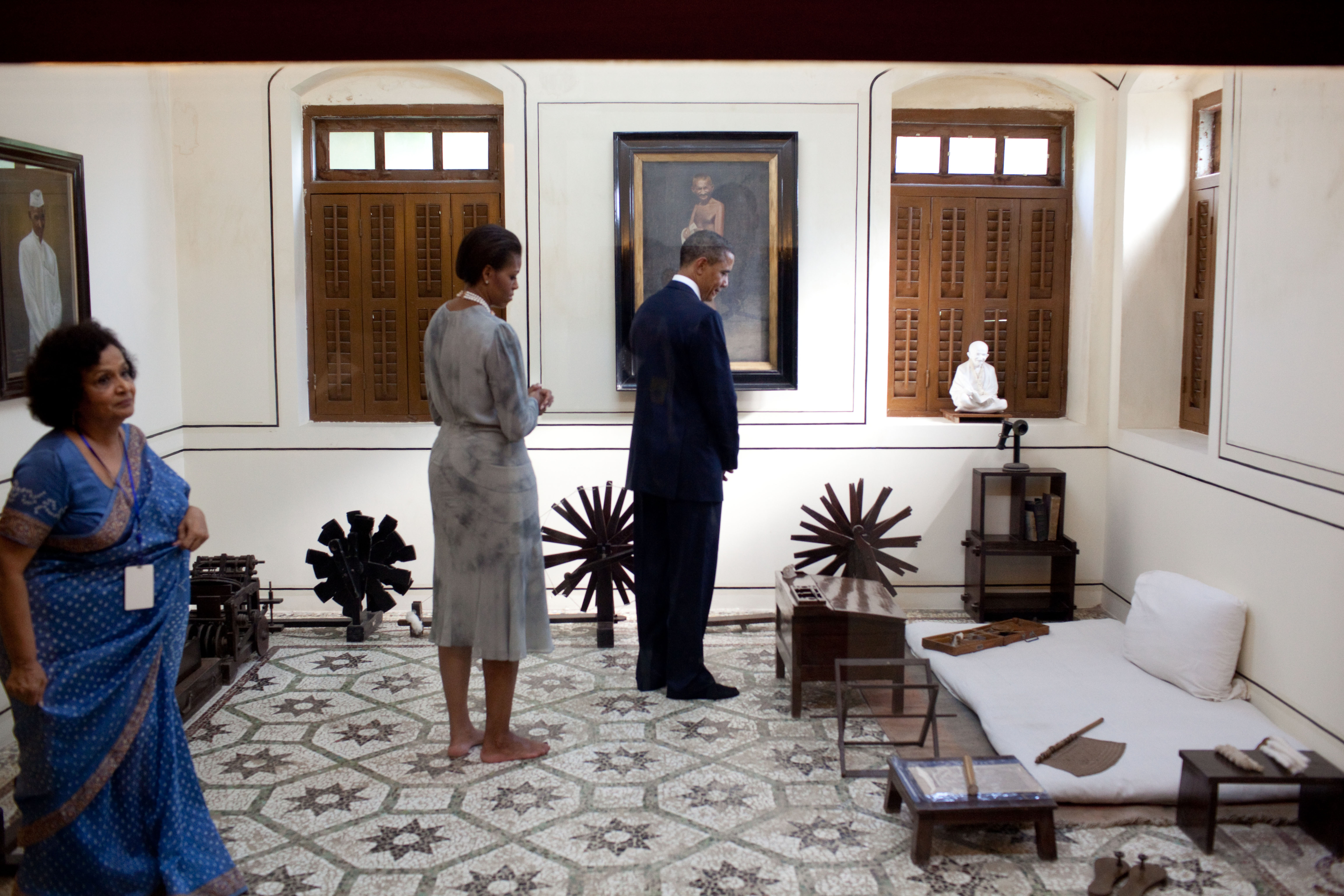 President Barack Obama and First Lady Michelle Obama tour Gandhi's room at the Mani Bhavan Gandhi Museum in Mumbai, India, Nov. 6, 2010. (Official White House Photo by Pete Souza)